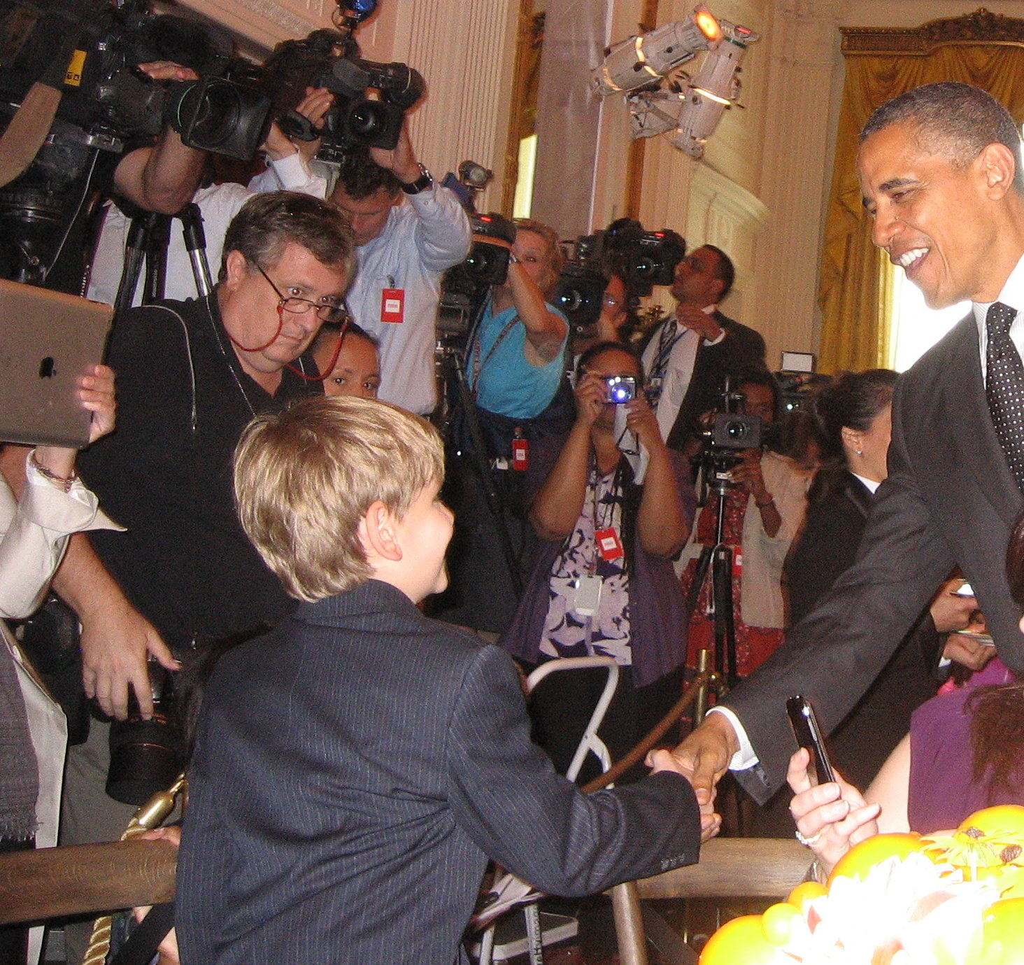 Logan Guleff Shaking hands President Barak Obama at the White House August 2012